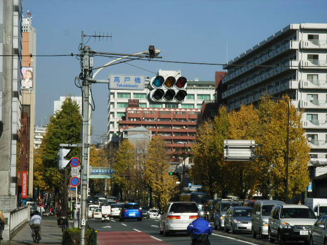 Meiji Boulevard(明治通り) in Shinjuku word.